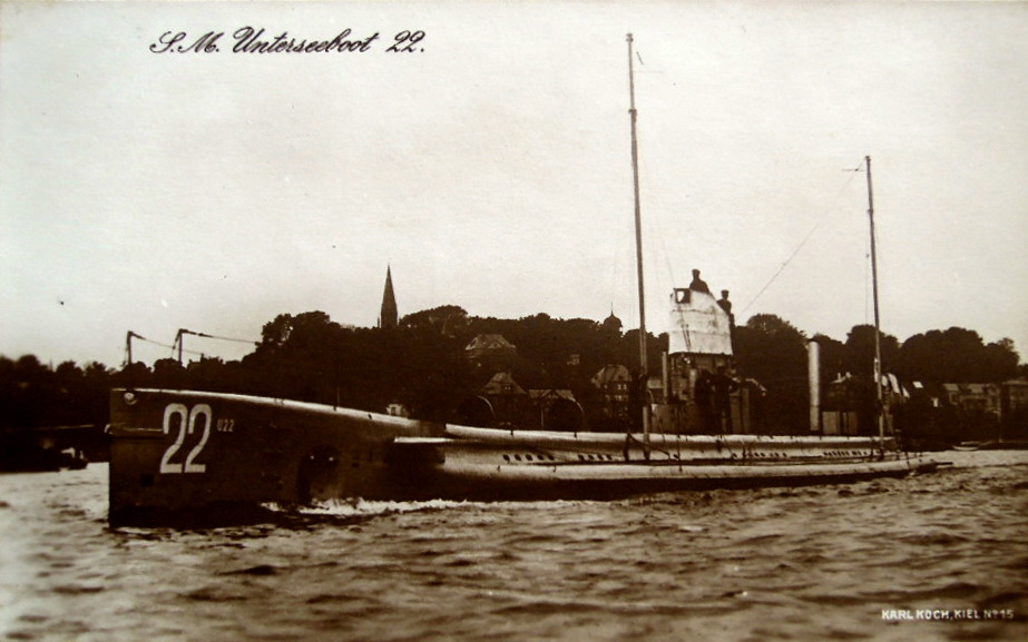 A wartime German postcard of U-22